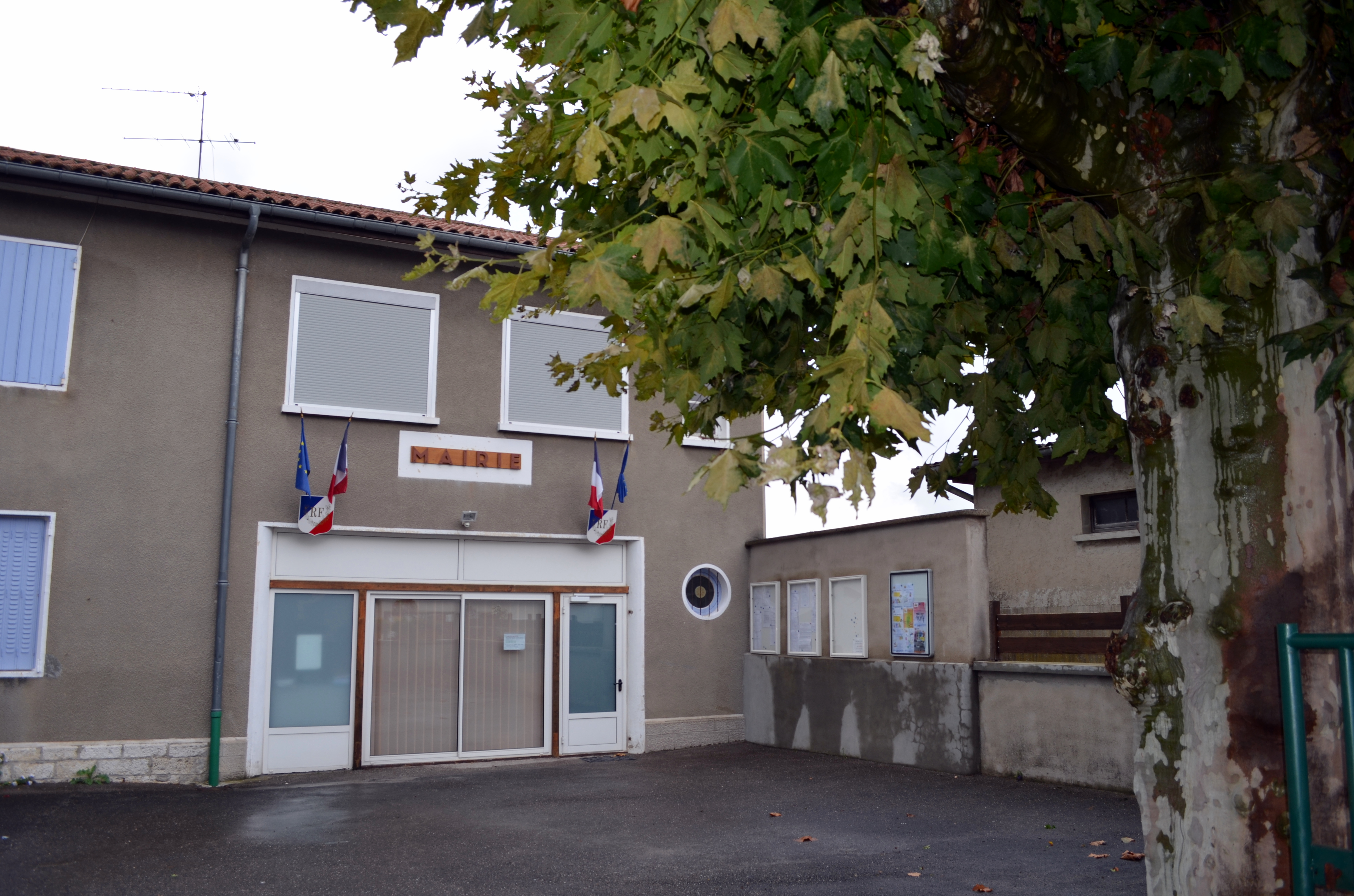 Town hall of Chatenay (Ain).